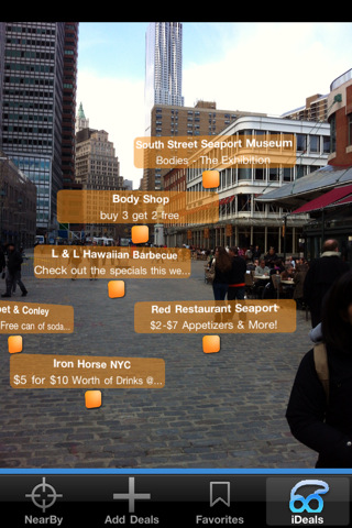 Augmented reality view seen through the 8coupons iPhone app.